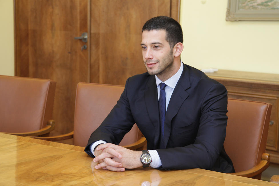 Vanja Udovičić